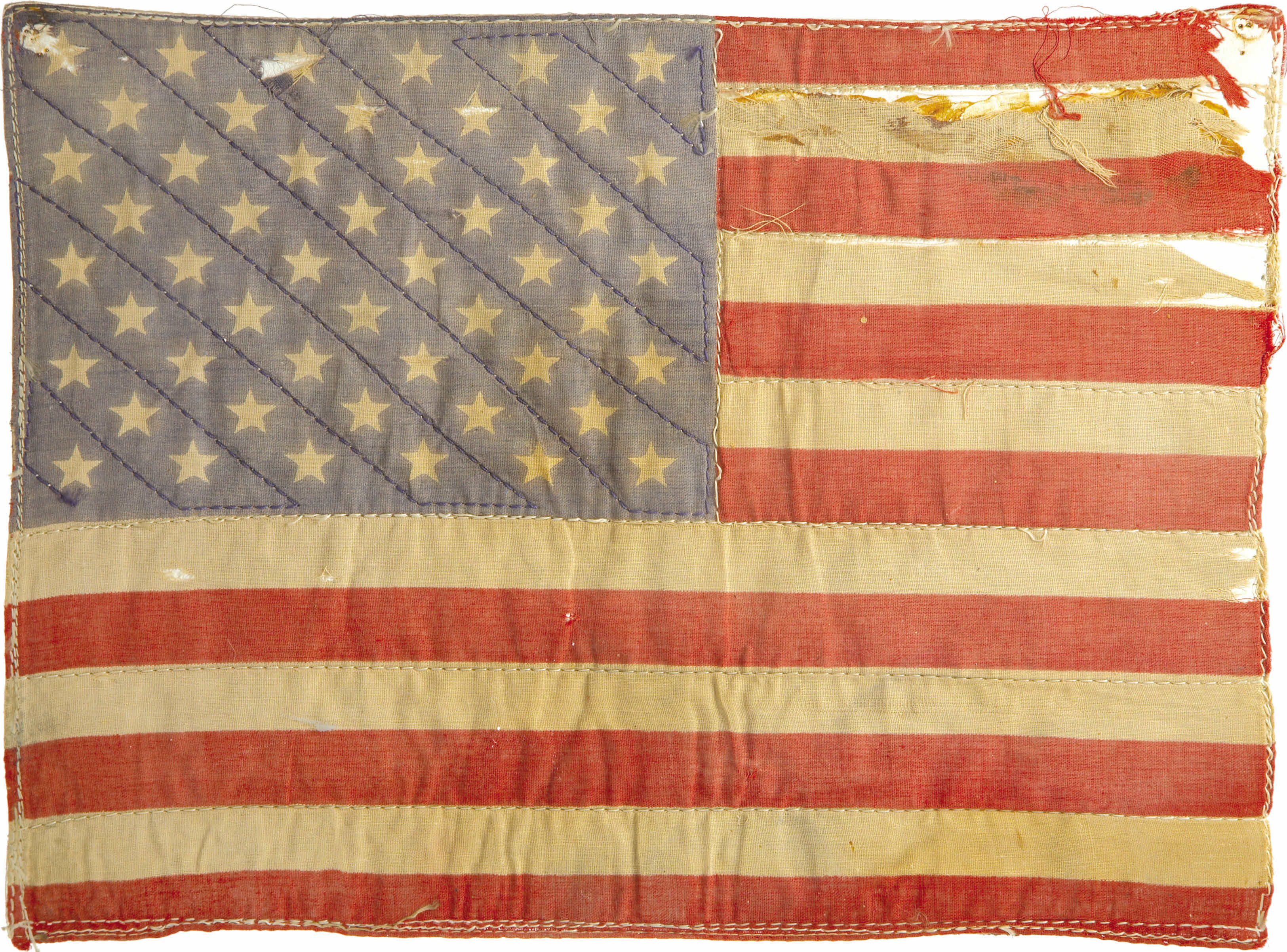 Peter Fonda's American Flag Patch. The "Captain America" flag worn on actor Peter Fonda's leather jacket in the famous film, Easy Rider sold for $89,625 in the Music and Entertainment Auction conducted, October 2007, by Heritage Auction Galleries of Dallas, Texas. The patch measures 14.5" x 11"